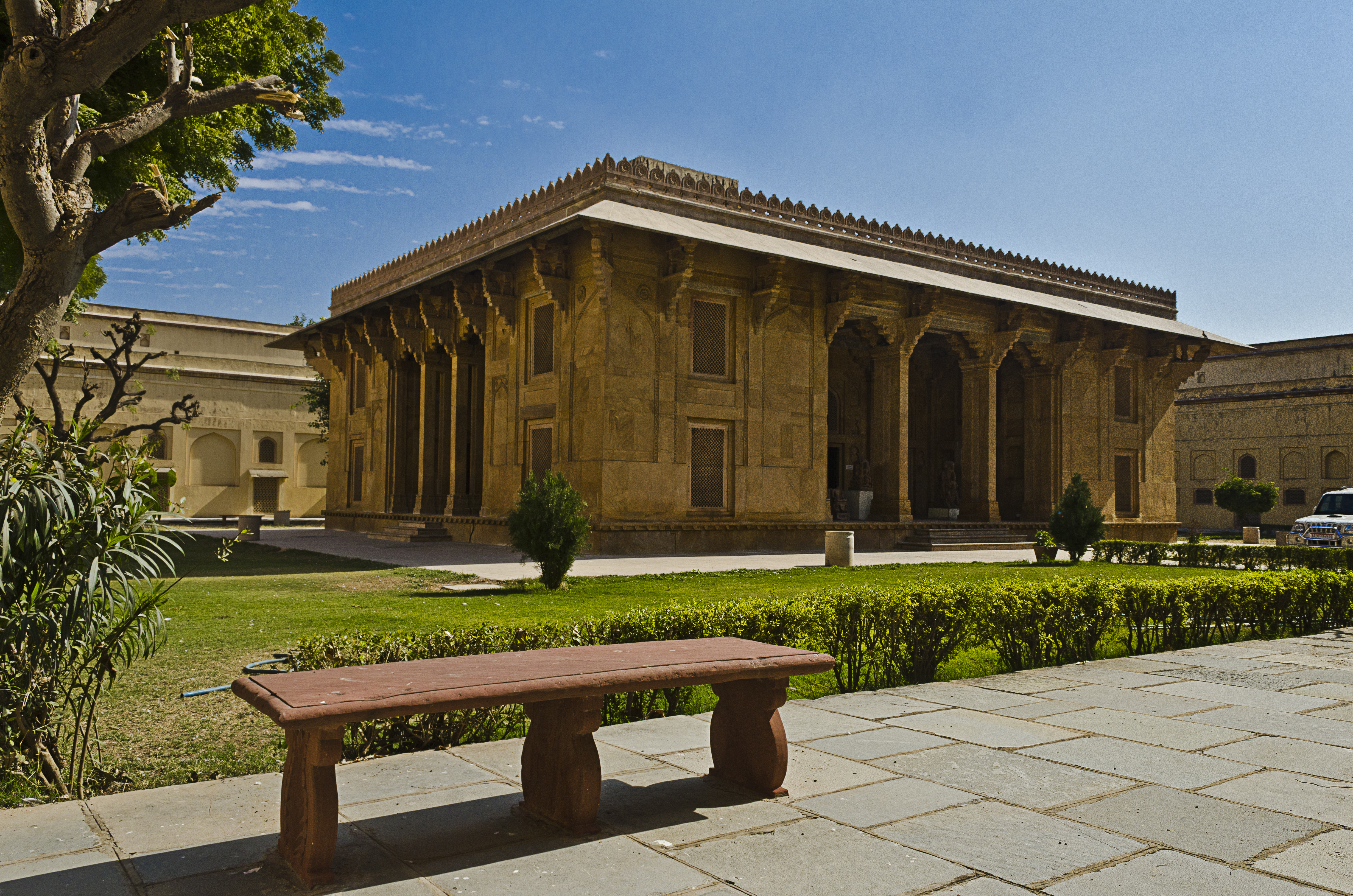 Magazine Building in Akbar Fort